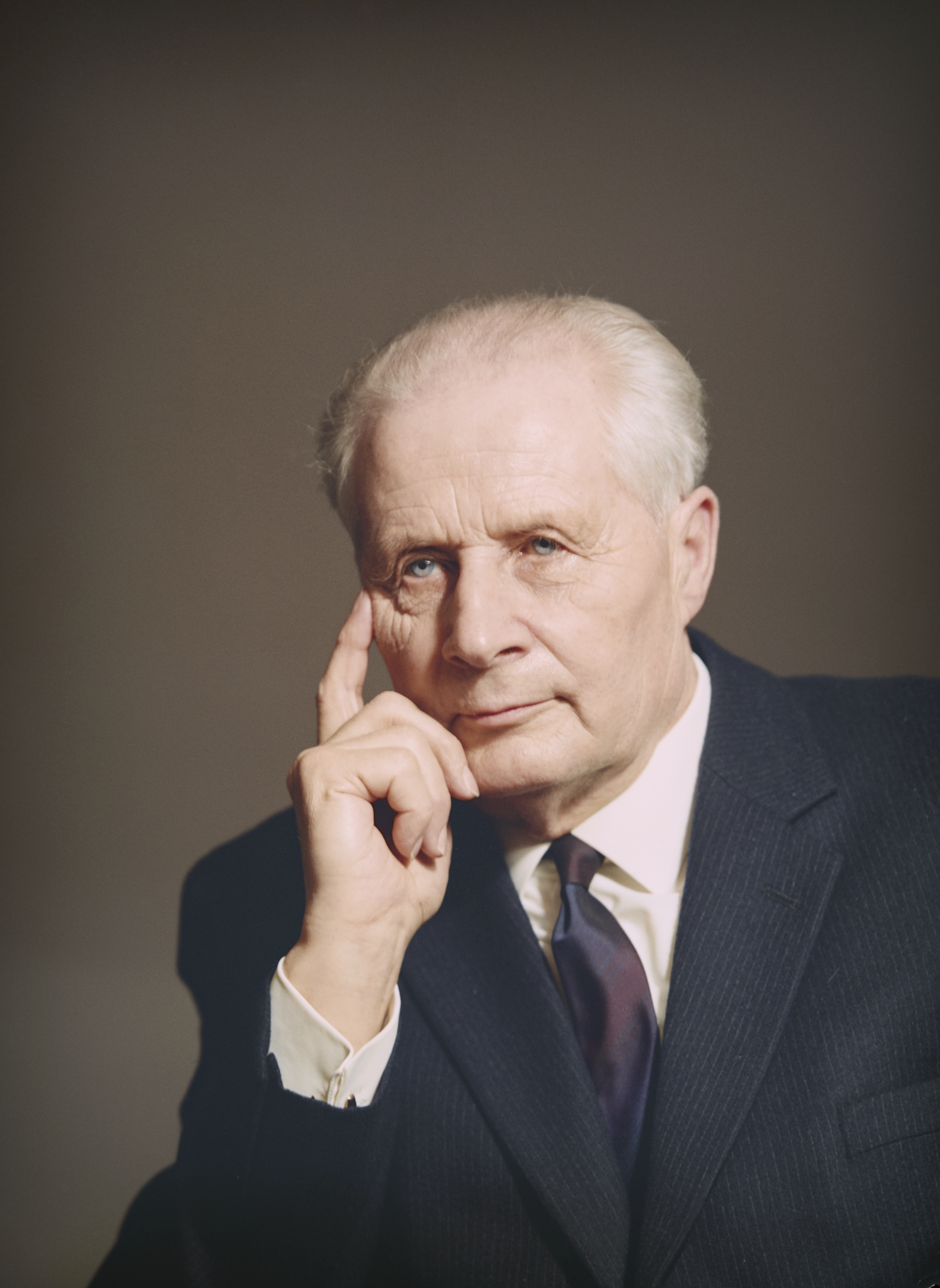 Photograph of the Finnish poet Runar Reihe (1901–1981).